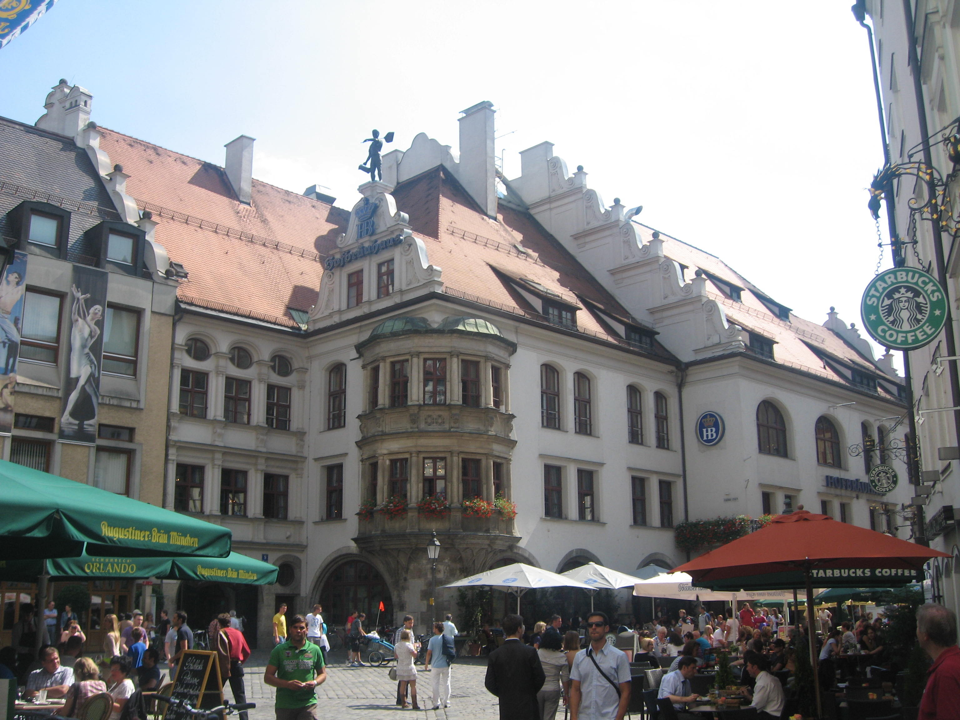 Platzl Munich